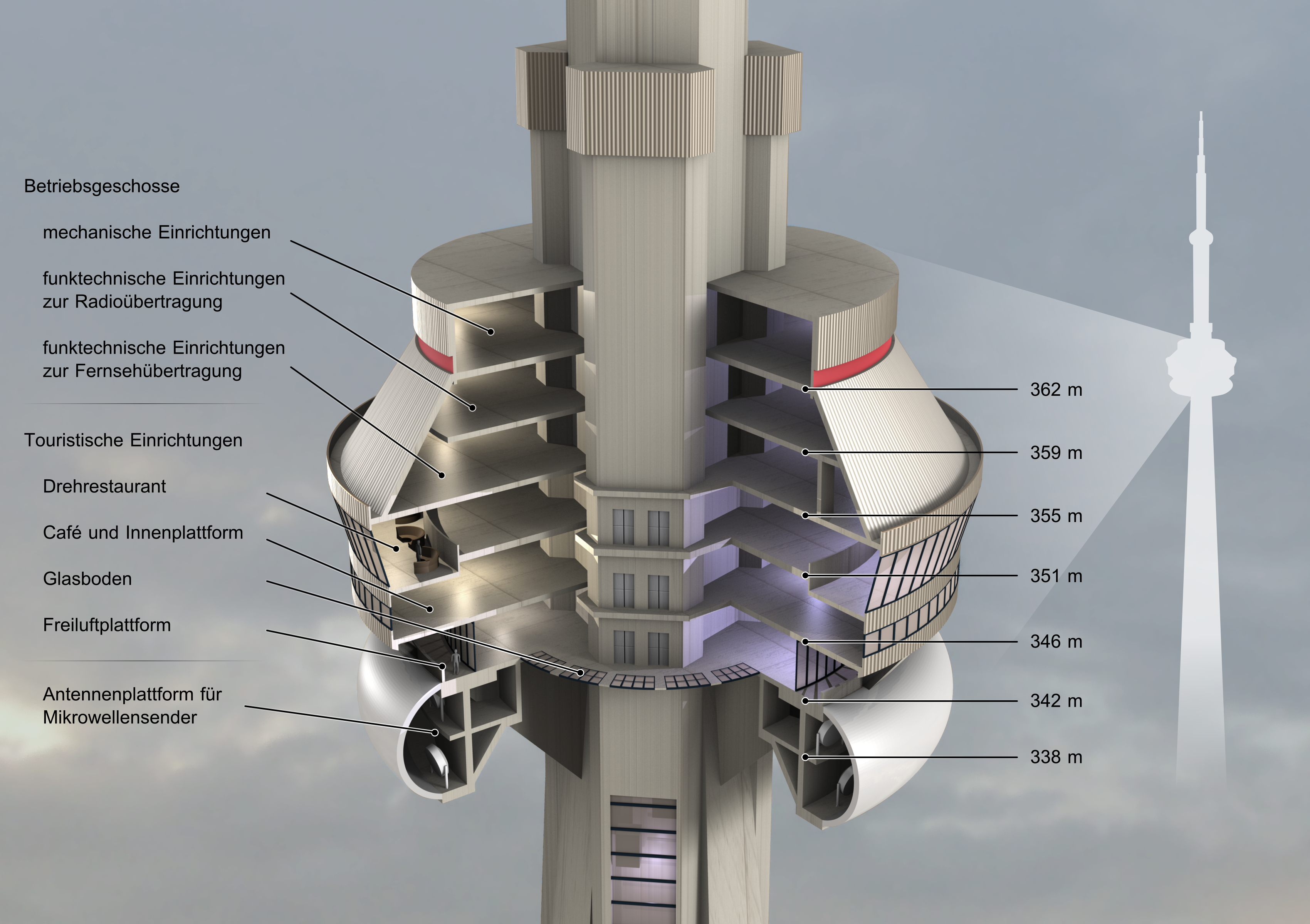 Model of the Main Pod of the CN Tower. Modeled after rough construction plans and photographies. Rendered with Blender.